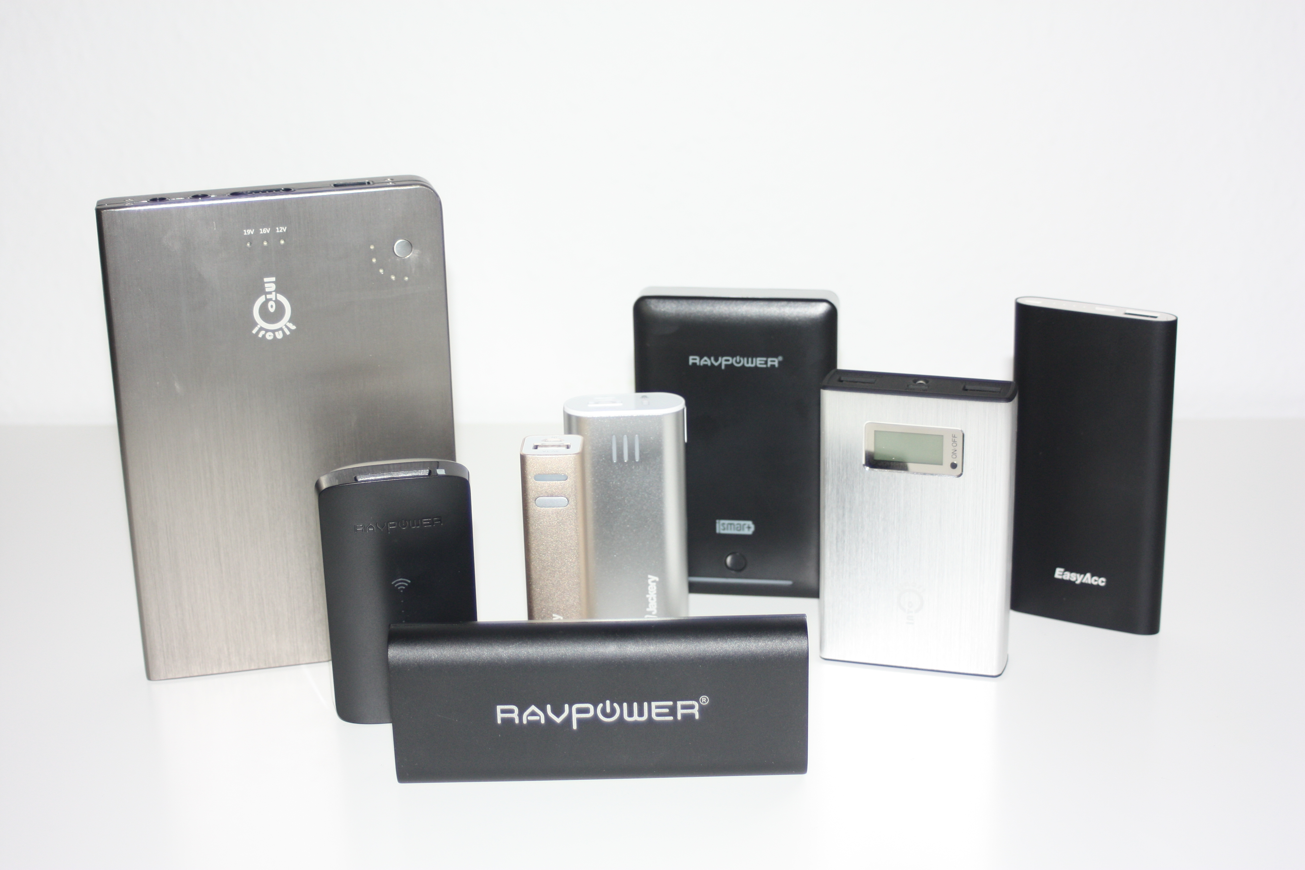 A sort of Powerbanks